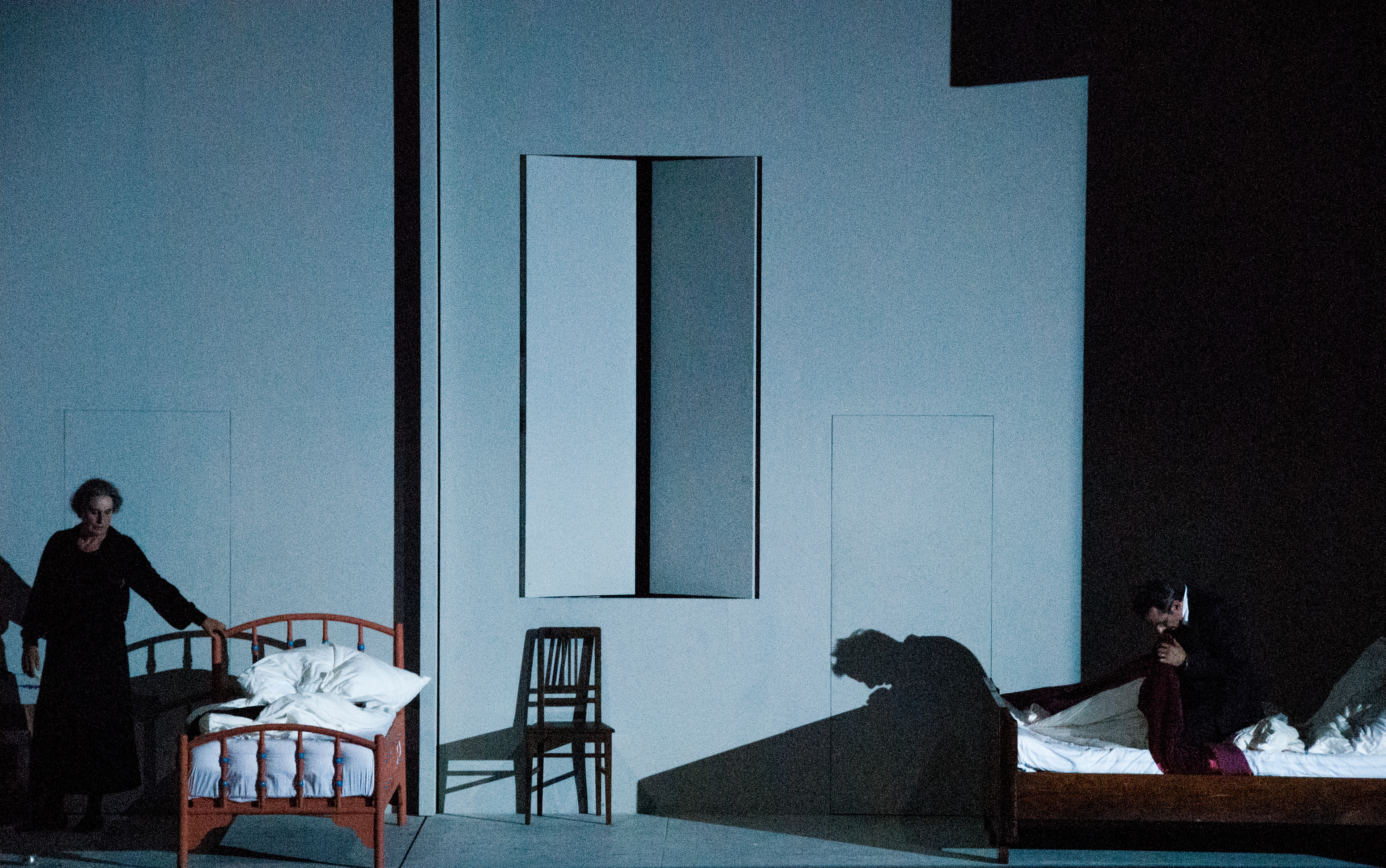 Charlotte Salomon, opera by Marc-André Dalbavie, World Premiere at the Salzburg Festival 2014